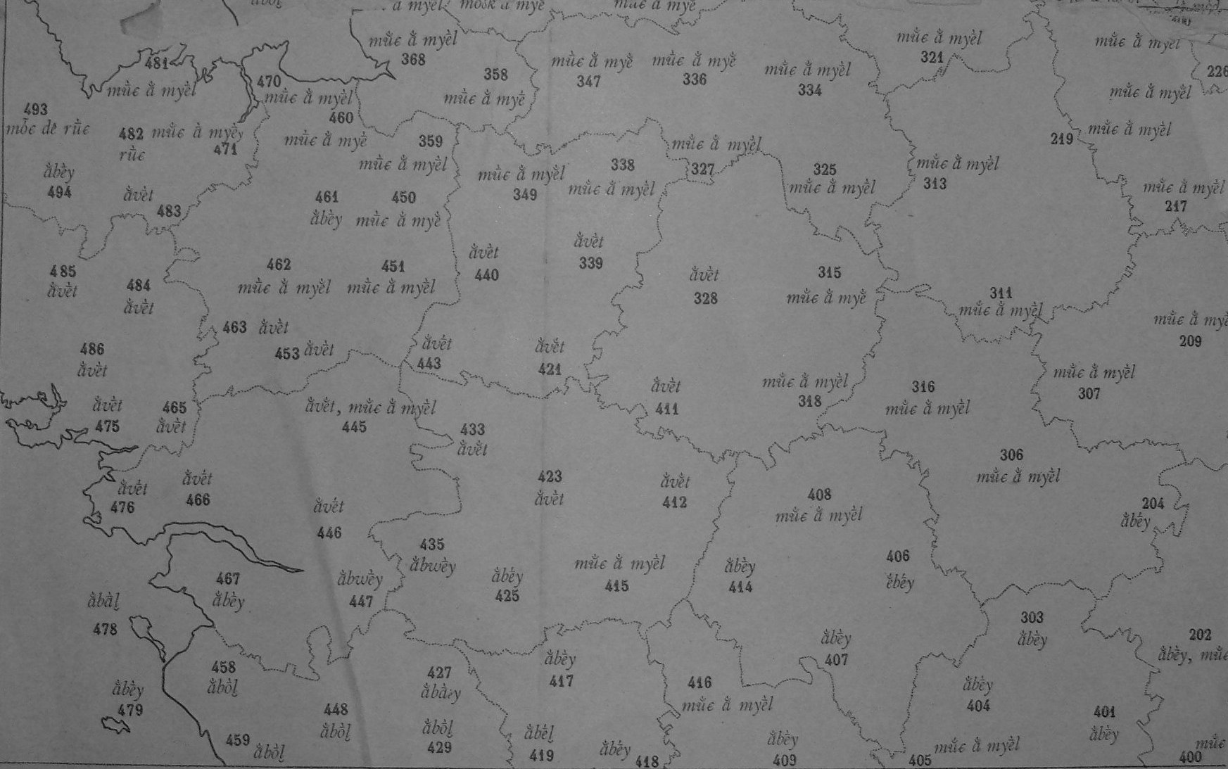 ATLAS LINGUISTIQUE OF FRANCE